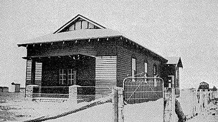 The Bunnaloo Hall which was built and opened in 1927 for a cost of £702.